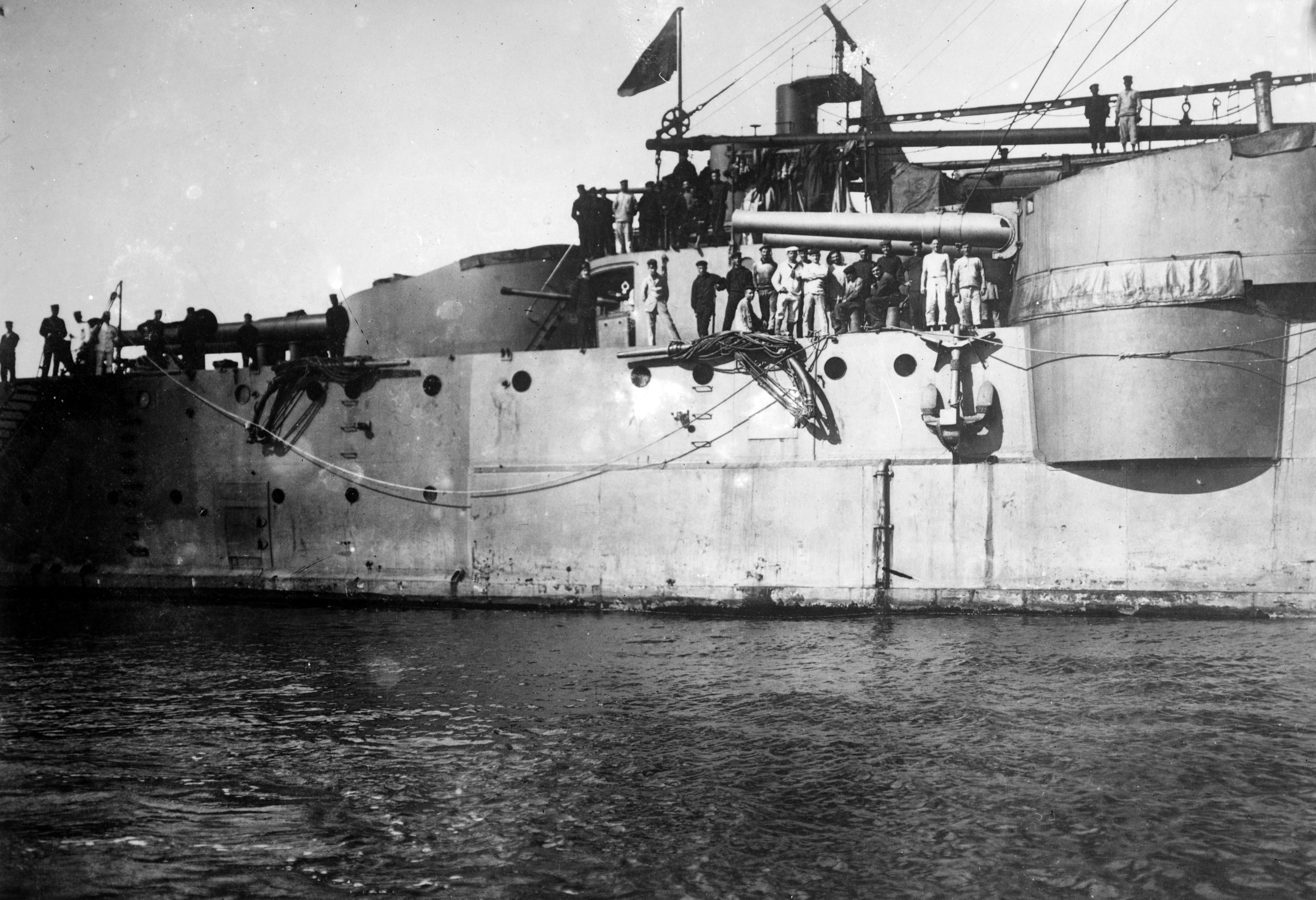 A side view of the guns on the Italian armored cruiser Pisa while at Tripoli, probably during the 1911–12 Italo-Turkish War. On the left of the image is the forward 10-inch (254 mm) gun turret (1 of 2); on the right, the forward port 7.5-inch (190 mm) turret (1 of 4). Information from Library of Congress website: TITLE: Tripoli - Guns on PISA CALL NUMBER: LC-B2- 2343-15[P&P] REPRODUCTION NUMBER: LC-DIG-ggbain-10036 (digital file from original neg.) RIGHTS INFORMATION: No known restrictions on publication. MEDIUM: 1 negative : glass ; 5 x 7 in. or smaller. CREATED/PUBLISHED: [between 1910 and 1915] CREATOR: Bain News Service, publisher. NOTES: Forms part of: George Grantham Bain Collection (Library of Congress). Title from unverified data provided by the Bain News Service on the negatives or caption cards. General information about the Bain Collection is available at Additional information about this photograph might be available through the Flickr Commons project at TOPICS: Tripoli FORMAT: Glass negatives. REPOSITORY: Library of Congress Prints and Photographs Division Washington, D.C. 20540 USA DIGITAL ID: (digital file from original neg.) ggbain 10036 CONTROL #: ggb2004010036